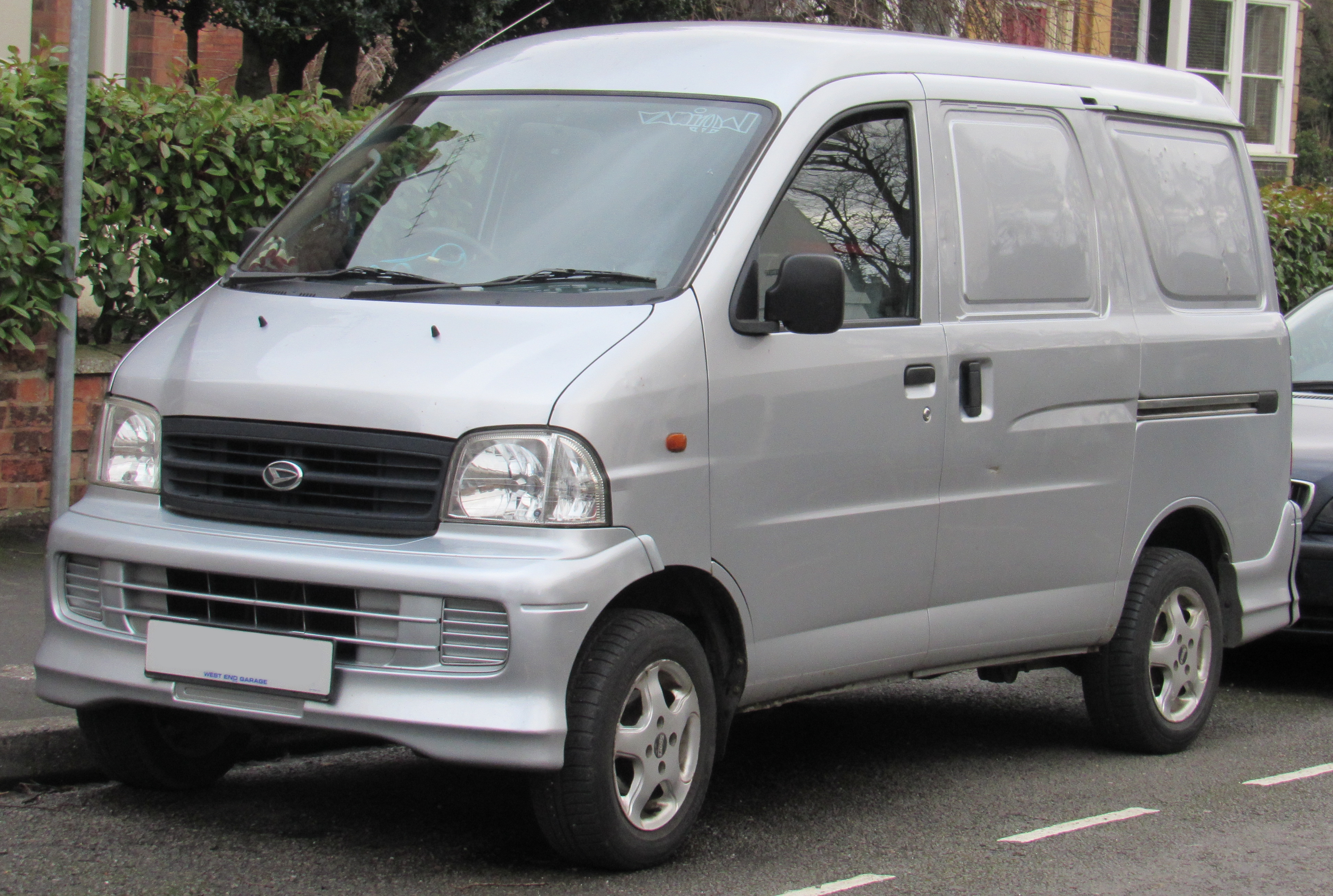 2005 Daihatsu Extol 1.3 Taken in Warwick